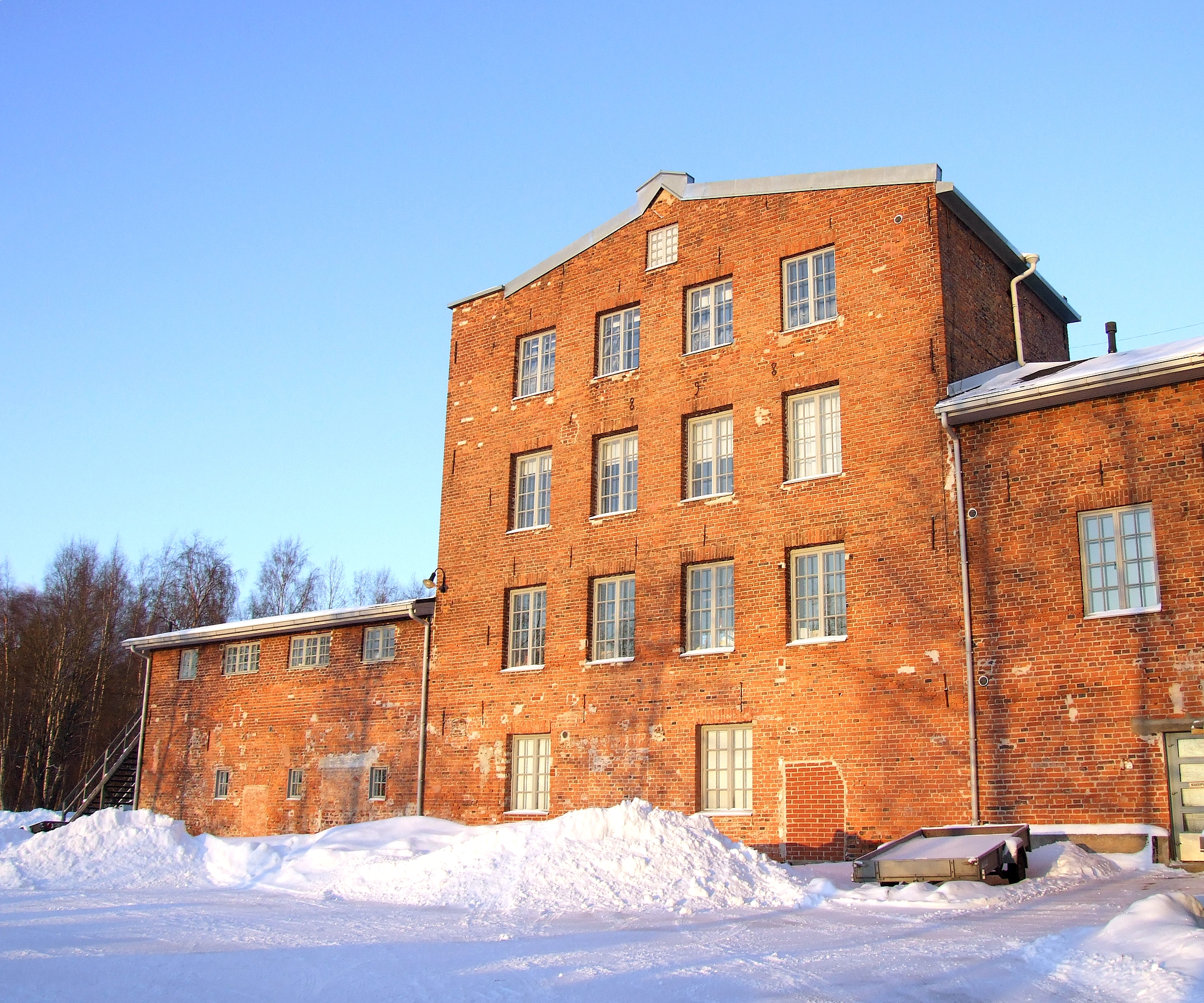 An old wool mill building in Pikisaari, Oulu, Finland